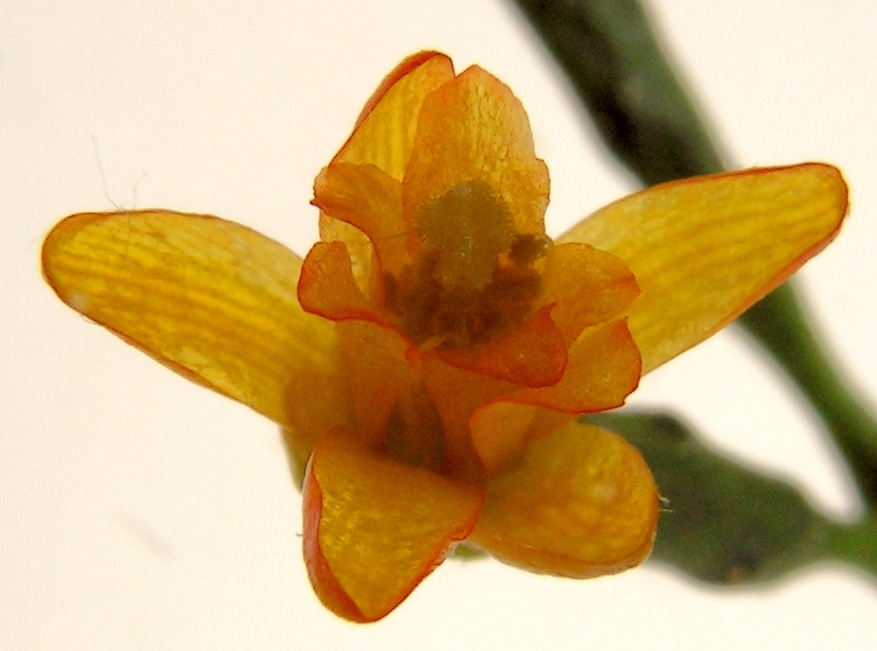 The flower of Hatiora salicornioides (enlarged).